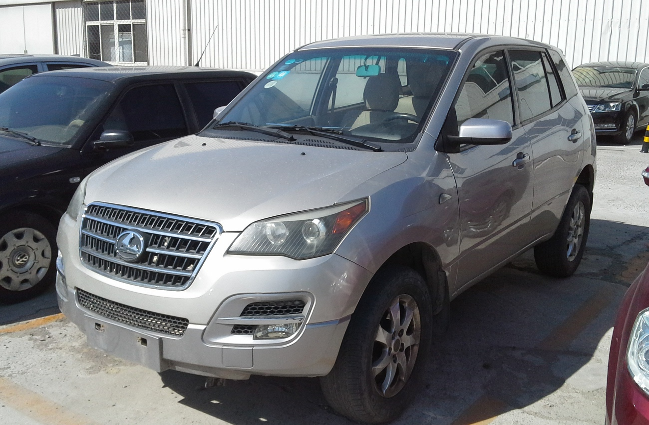 Changfeng Liebao CS7 photographed in Beijing, China.